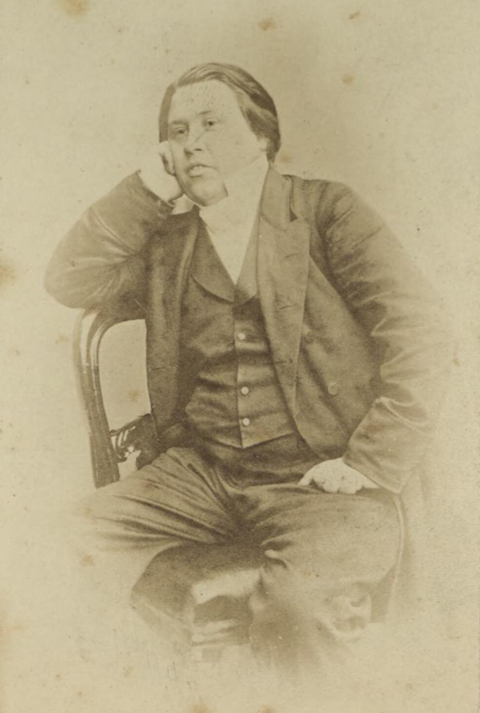 A portrait from the Welsh Portrait Collection at the National Library of Wales. Depicted person: Charles Spurgeon – British preacher, author, pastor and evangelist